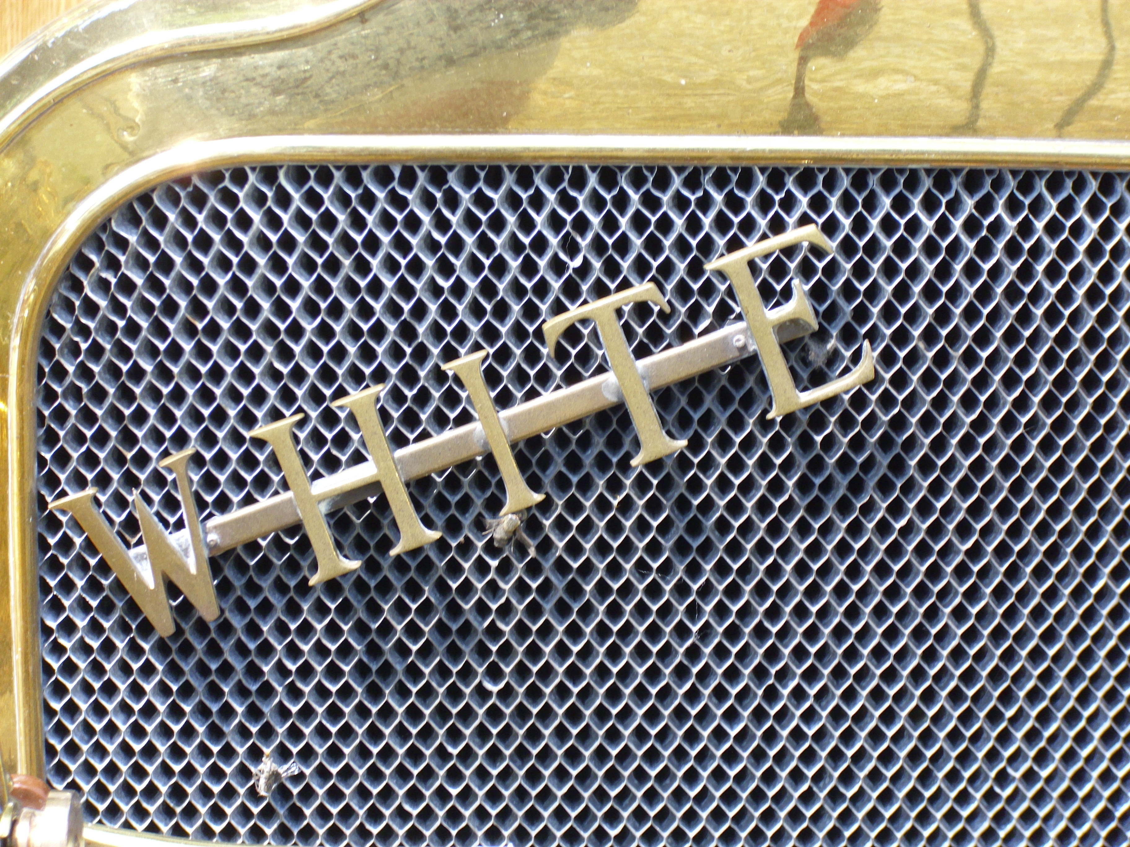 Emblem White